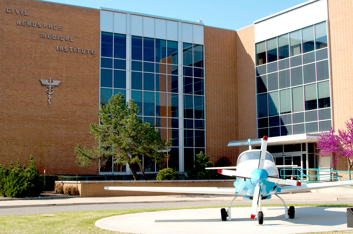 The FAA Civil Aerospace Medical Institute (CAMI) Building in Oklahoma City, OK. Photo by Dr. Stephen Véronneau of the Aerospace Medical Research Division of CAMI taken March 2011. Nikon D700 © Véronneau 2011